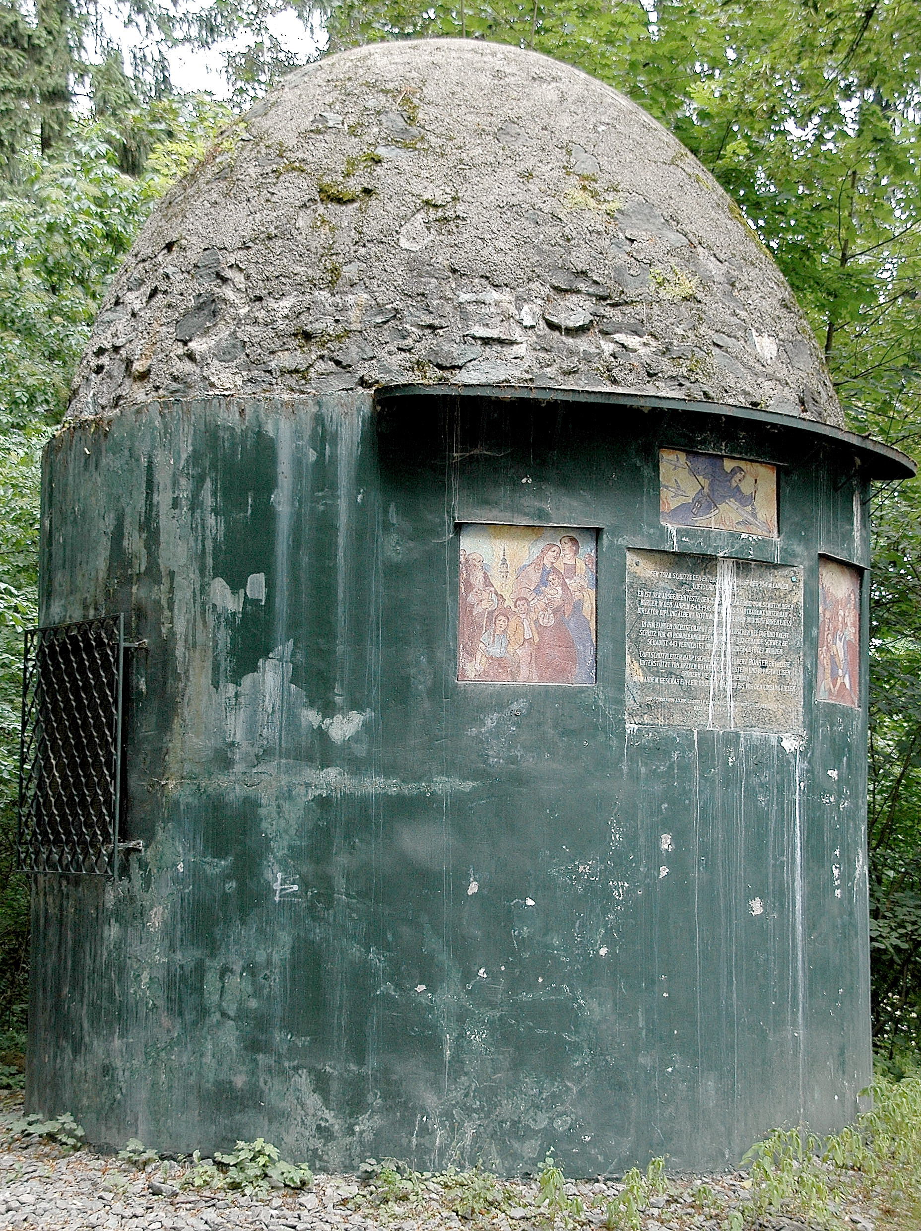 Tower of the ventilation-funnel of aerial defense underground shelter, "Kreuzbergl", 8th district “Villacher Vorstadt”, municipality Klagenfurt, Carinthia, Austria, EU